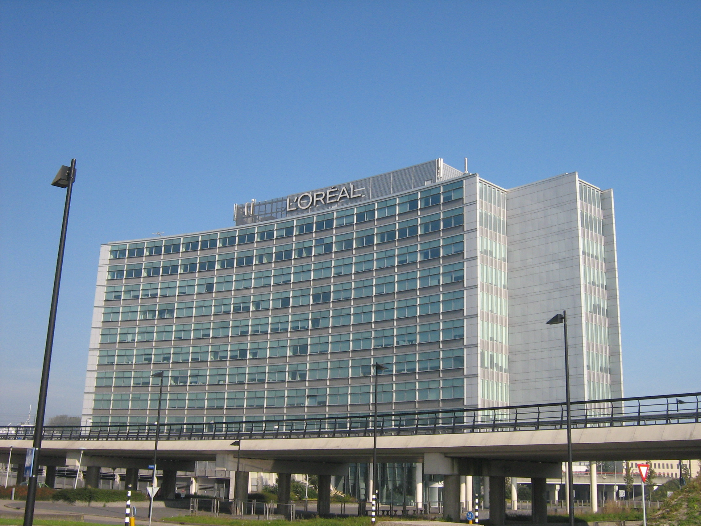 Dutch office of cosmetics giant L'Oreal at 1 Scorpius, Hoofddorp, the Netherlands, seen from the south.